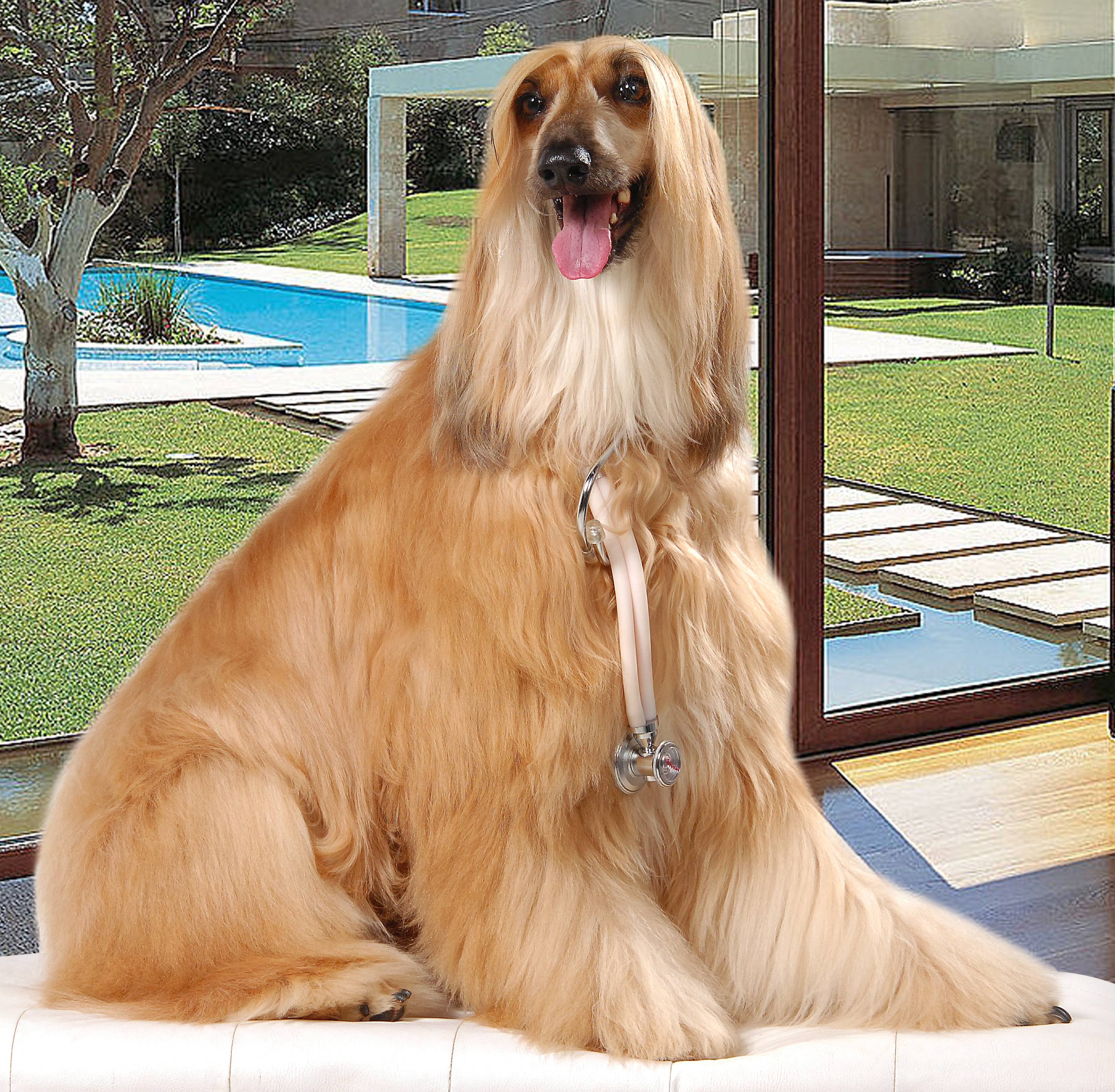 Afghan Hound (Ornella) Planeta Bicho 2010 calendar contest.